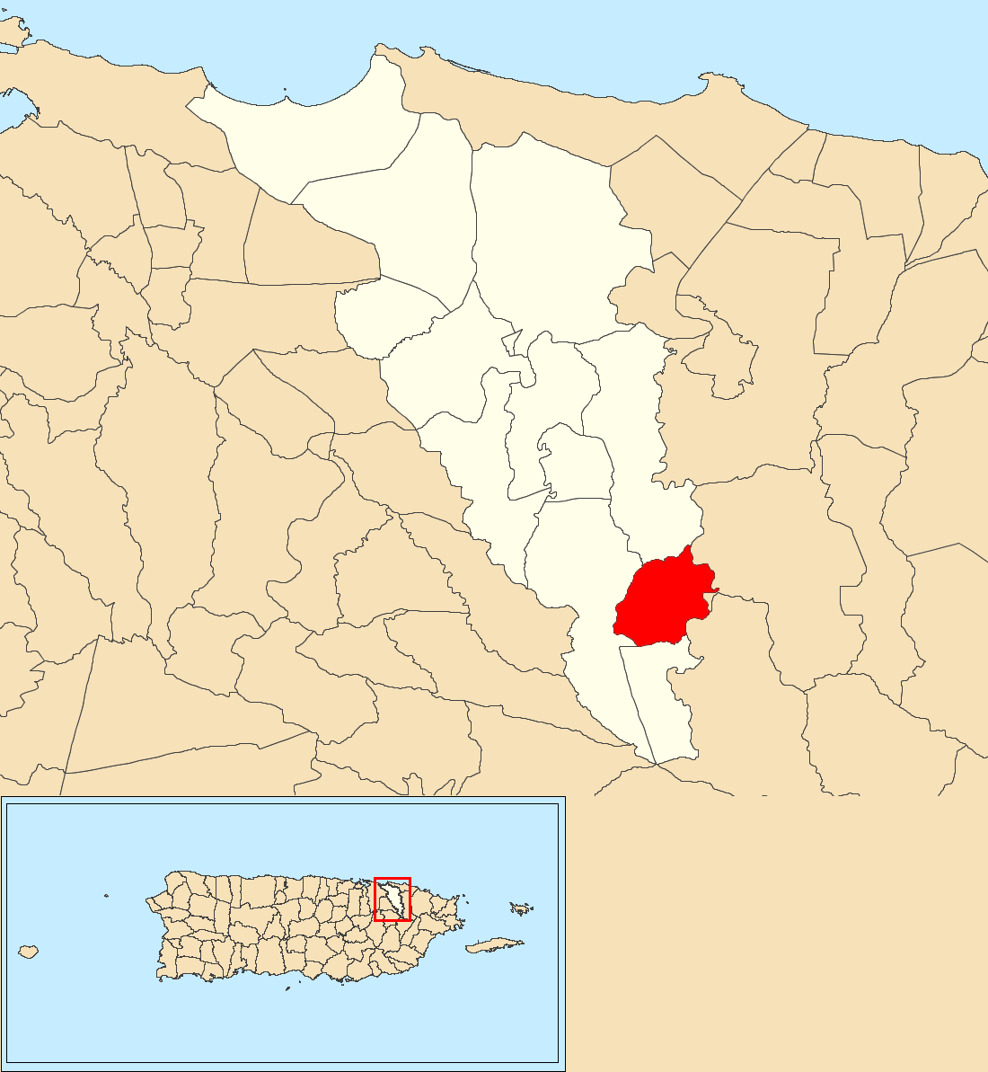 Carruzos, Carolina, Puerto Rico locator map